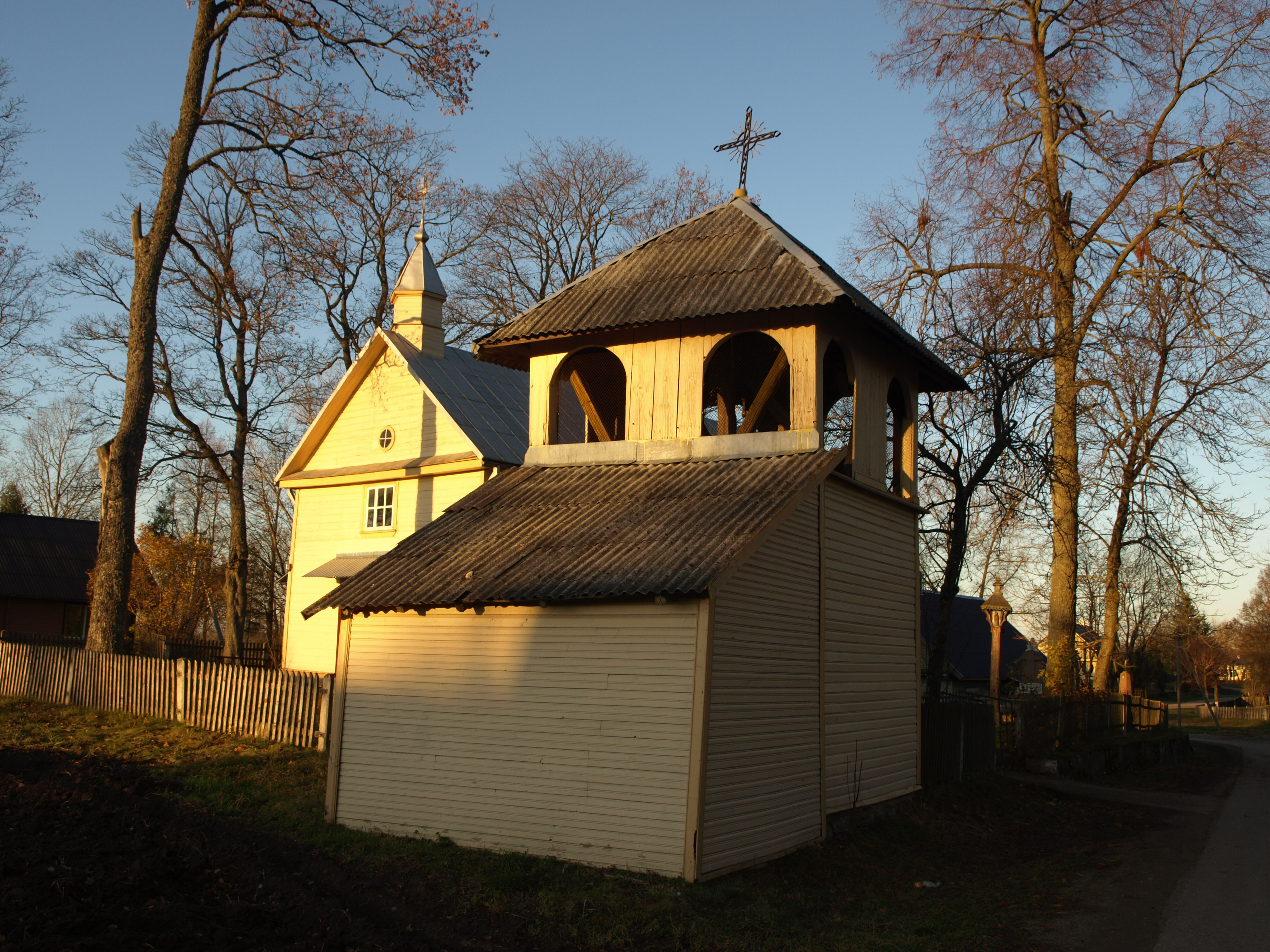 Zibalai church bell tower, Širvintos district, Lithuania